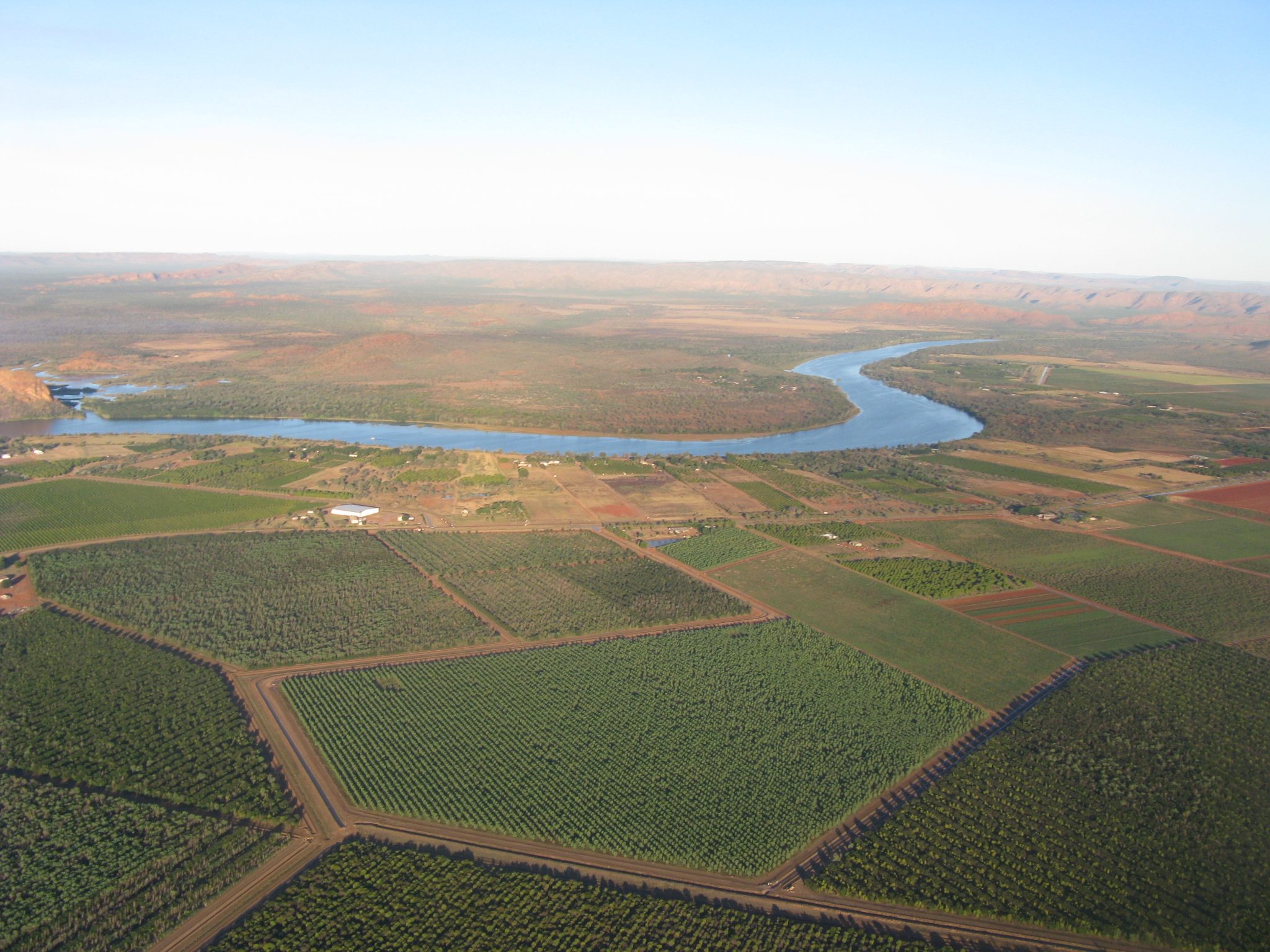 Ord River sandalwood plantation near Kununurra, Kimberley/Australia